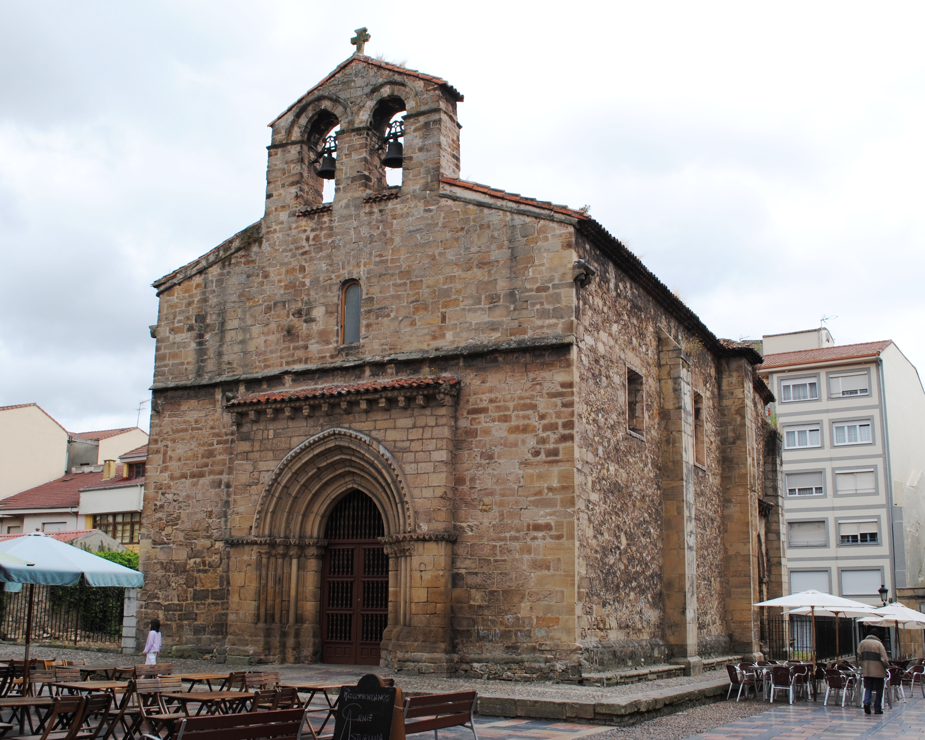 See title.